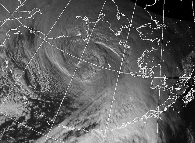 Satellite image of one of the most powerful Bering Sea storms to ever strike Alaska